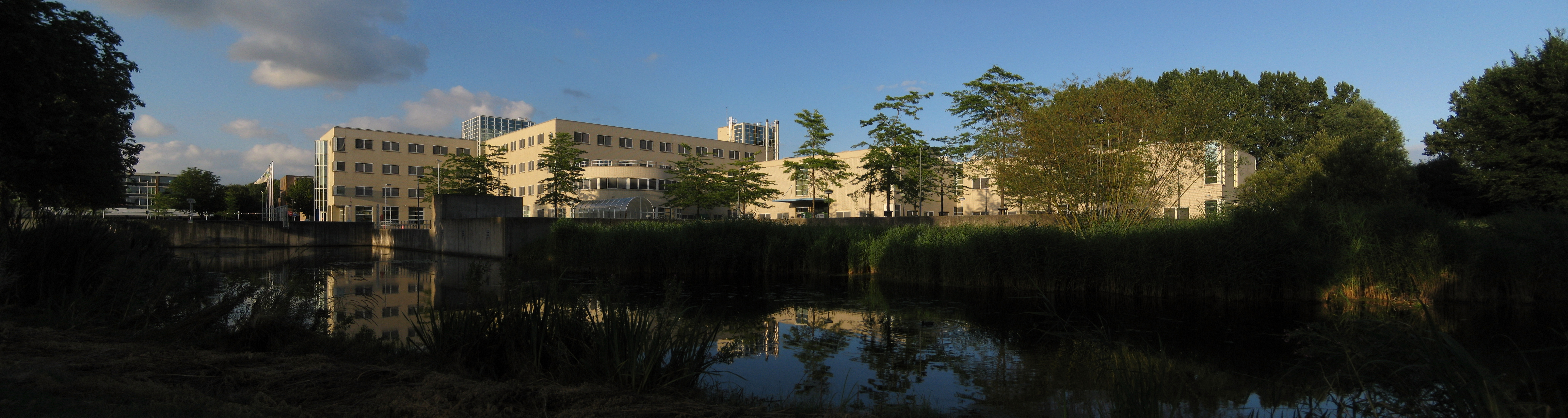 Office building (1989) in the Dutch city of Groningen.